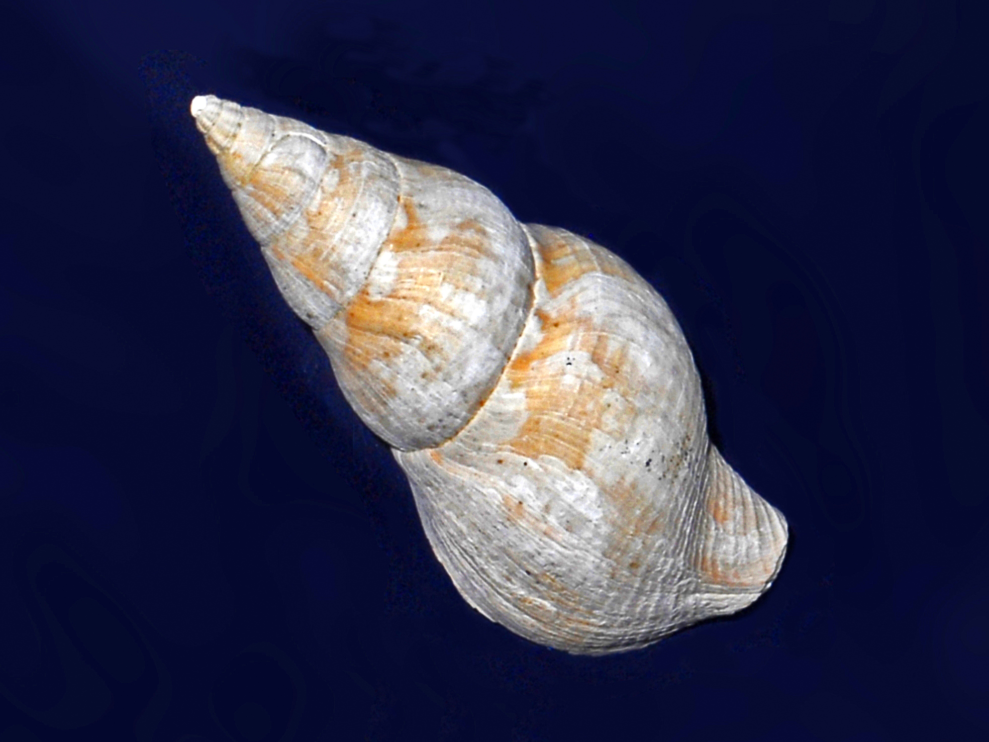 Fossil shell of Euthria cornea from Pliocene of Italy, on display at the Museo Paleontologico, Asti